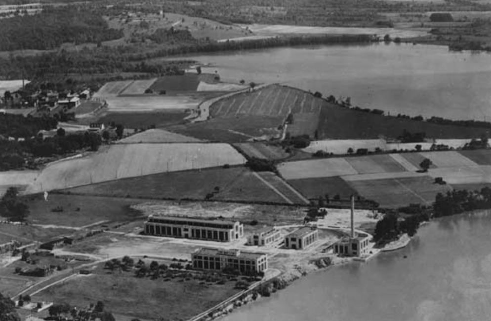 The campus of the U. S. Naval Research Laboratory in 1923, its first year. The building in front is Building 1, the first research building of the laboratory. The buildings behind are, left to right, a machine shop, foundry, pattern shop, and a coal power plant. All five buildings still exist as of 2014. This is a view from the northwest.